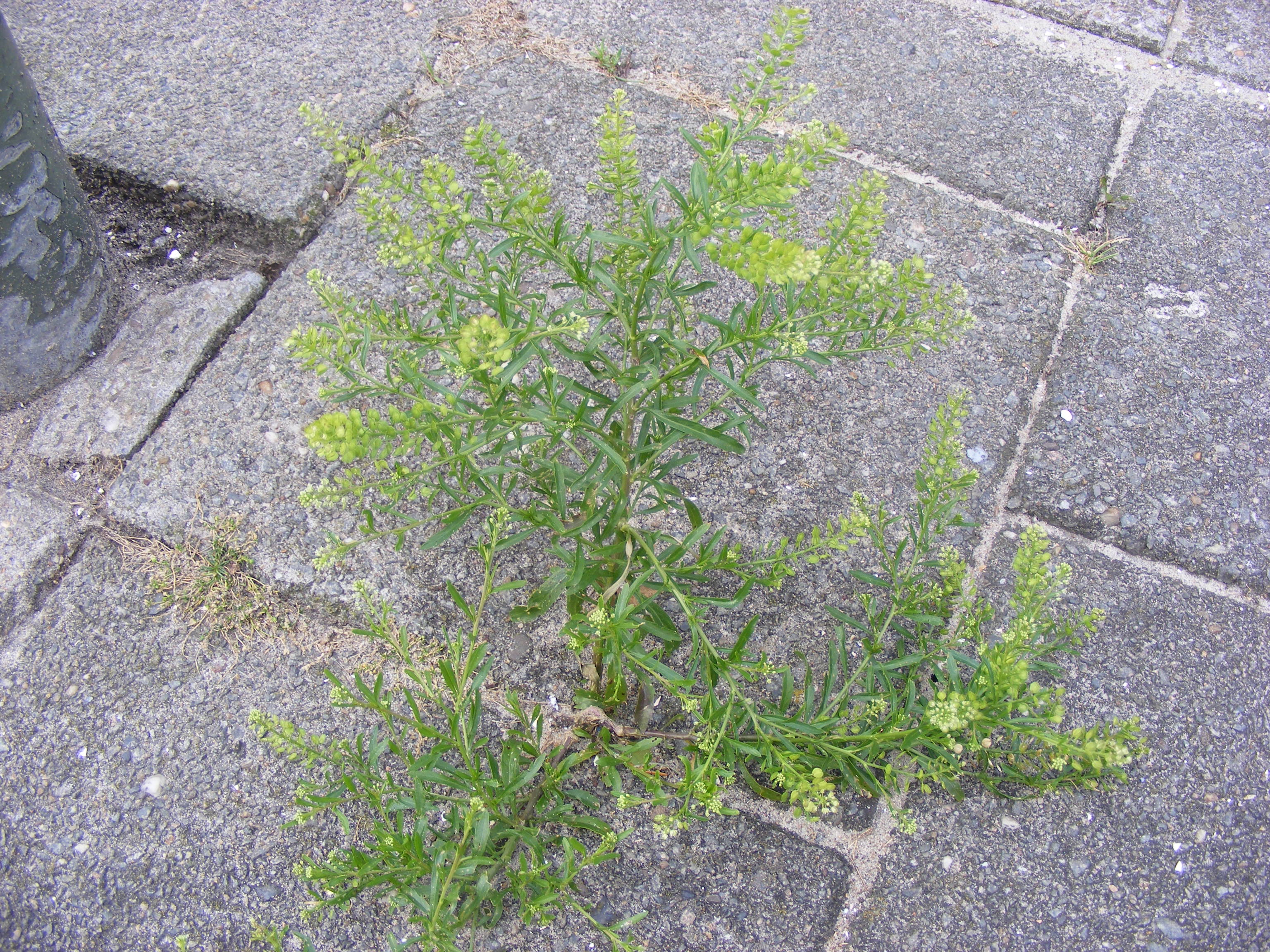 This photo shows Lepidium ruderale